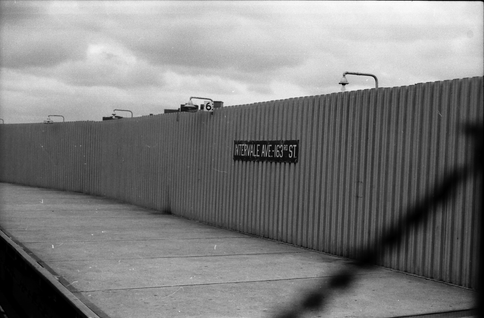 Stuart Gitlow, Photographer. Taken 10/18/77.